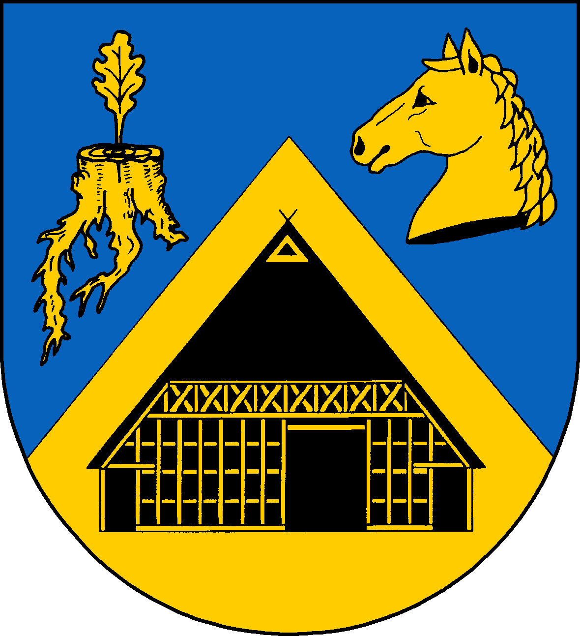 Coat of arms of the municipality Wagersrott in Schleswig-Holstein, Germany.